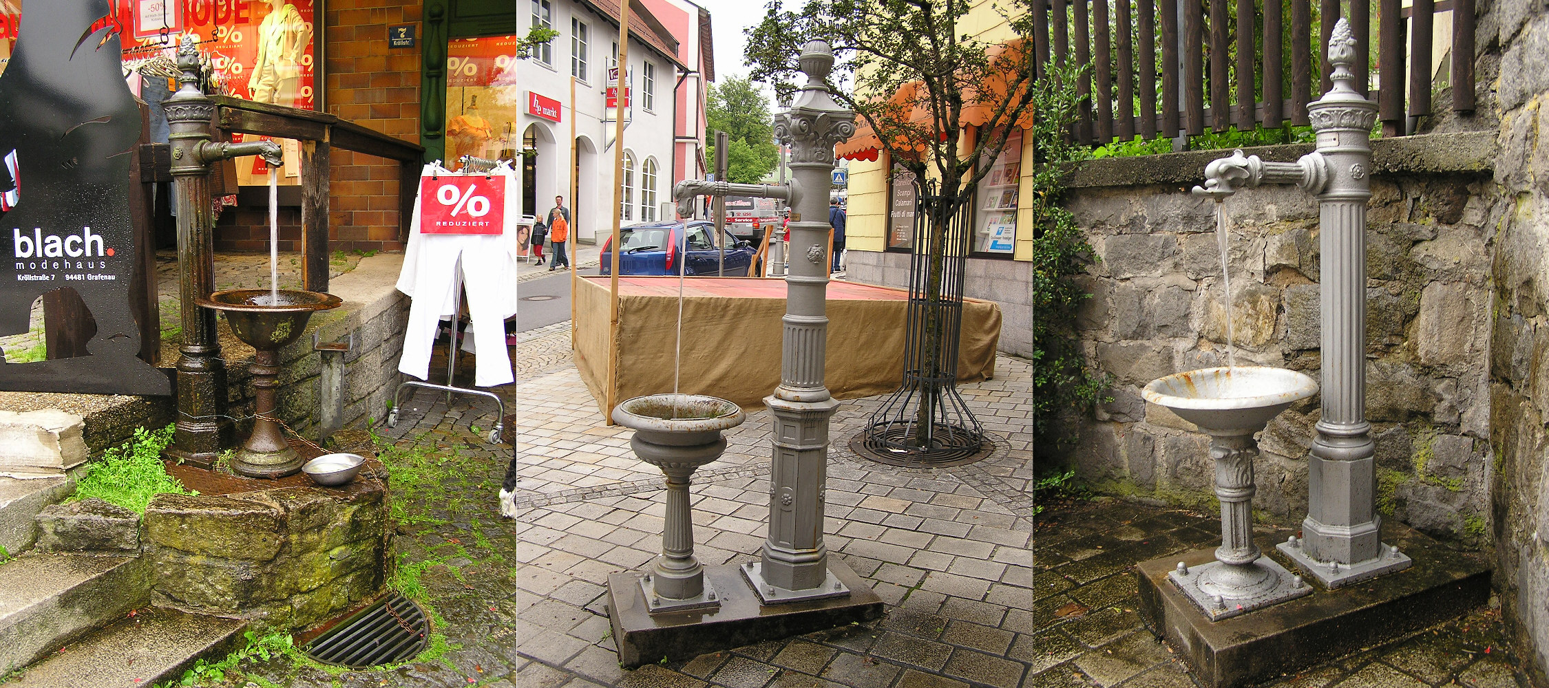 Three springs in the old town of Grafenau. It is interesting that at two of them (at more frequented places) there are drinking-dishes for dogs.